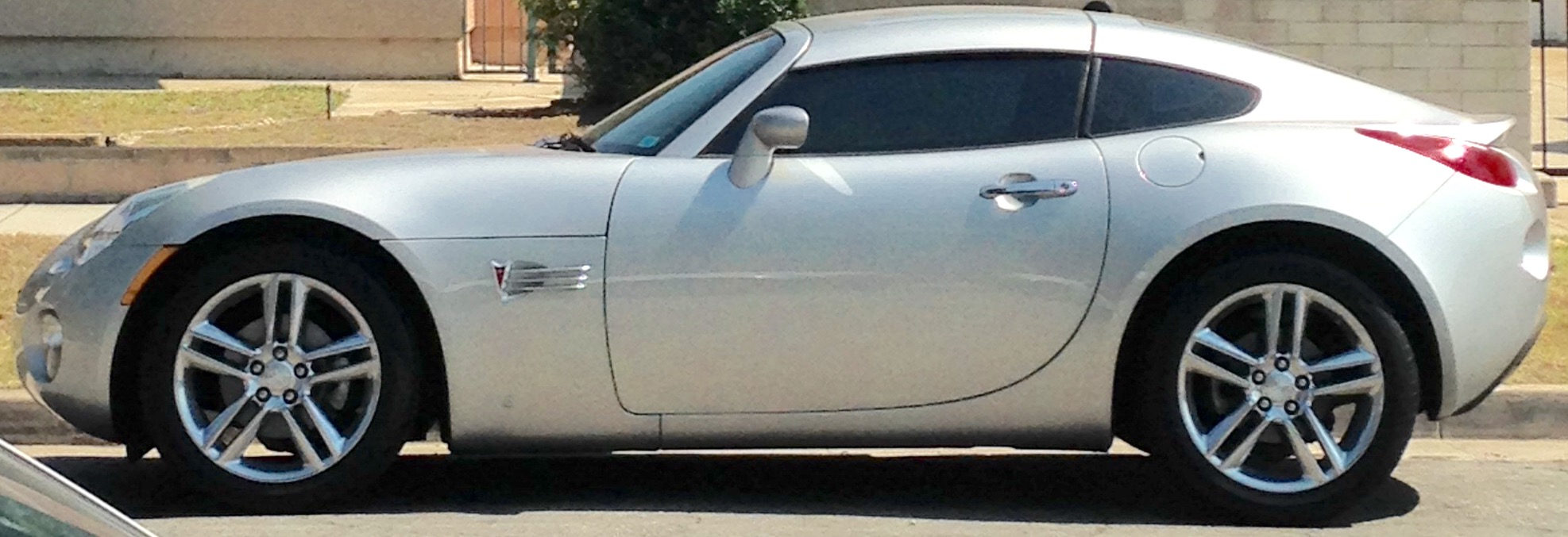 An extremely rare Pontiac Solstice GXP coupe. First time ever I've ever seen one of these. Fewer than 2,000 of these sexy machines ever built.